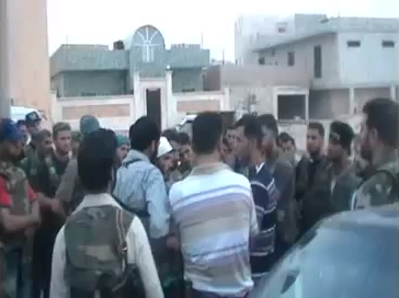 Rebel fighters of the Free Syrian Army gather near the Anadan checkpoint during the Battle of Anadan.